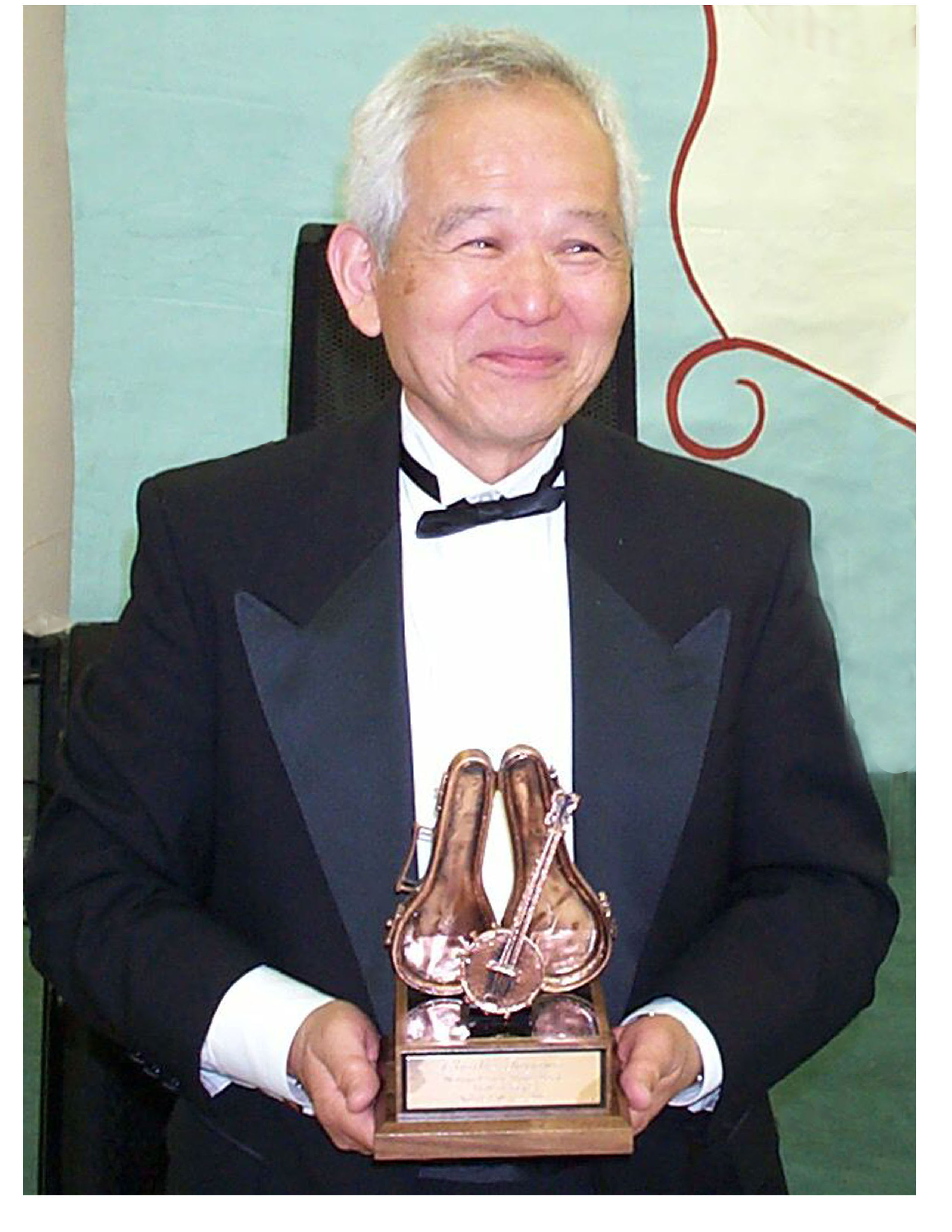 Charlie Tagawa's induction into the Banjo Hall of Fame, Guthrie, Oklahoma, 2003 for contributions in banjo education